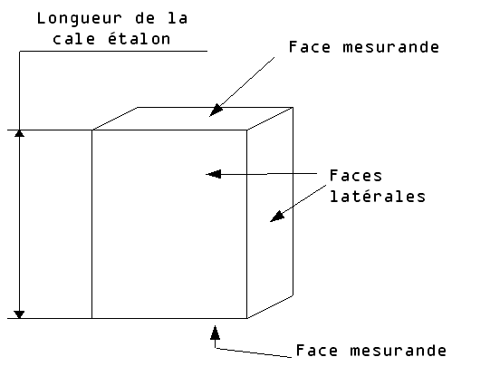 Calibration block: sketch